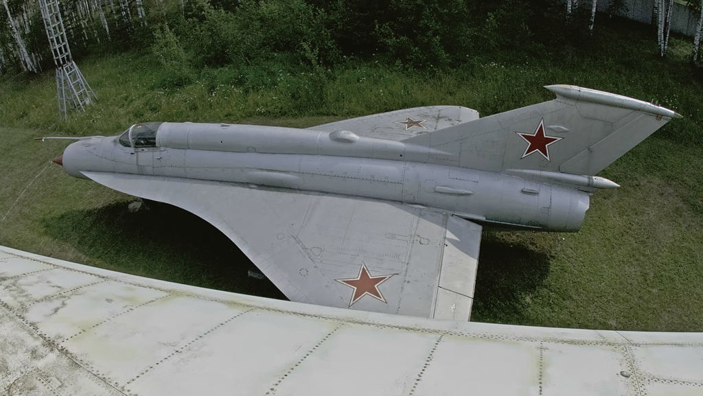 In 1964, based on the MiG-21s began the development of analogue aircraft A-144, aerodynamic design of the wing which repeats the shape of the bearing surface of the supersonic passenger airliner TU-144.